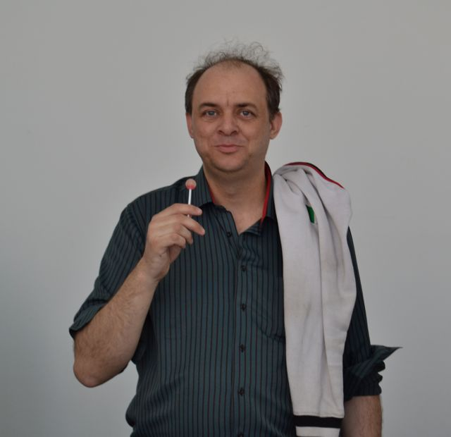 Philosopher Graham Harman in a break after a conference at MACBA, Barcelona, 2012.